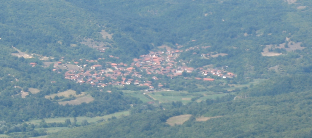 View on Jablanica from Rtanj mountain,Serbia.